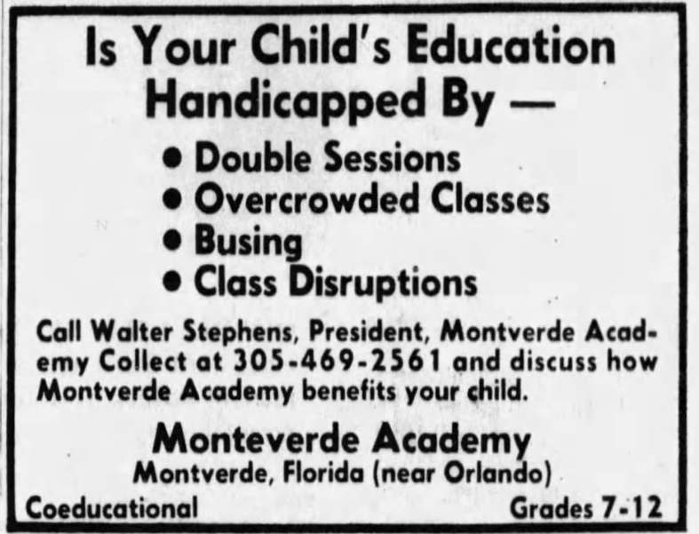 Monteverde Academy advertisement Published in the Miami News on page 18 on September 15 1972.